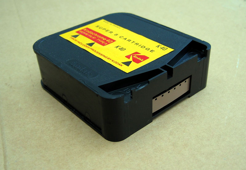 Super 8 film Kodachrome cartridge - 1980 (height/Höhe: 70 mm; width/Breite: 74 mm; depth/Tiefe: 23 mm personal picture